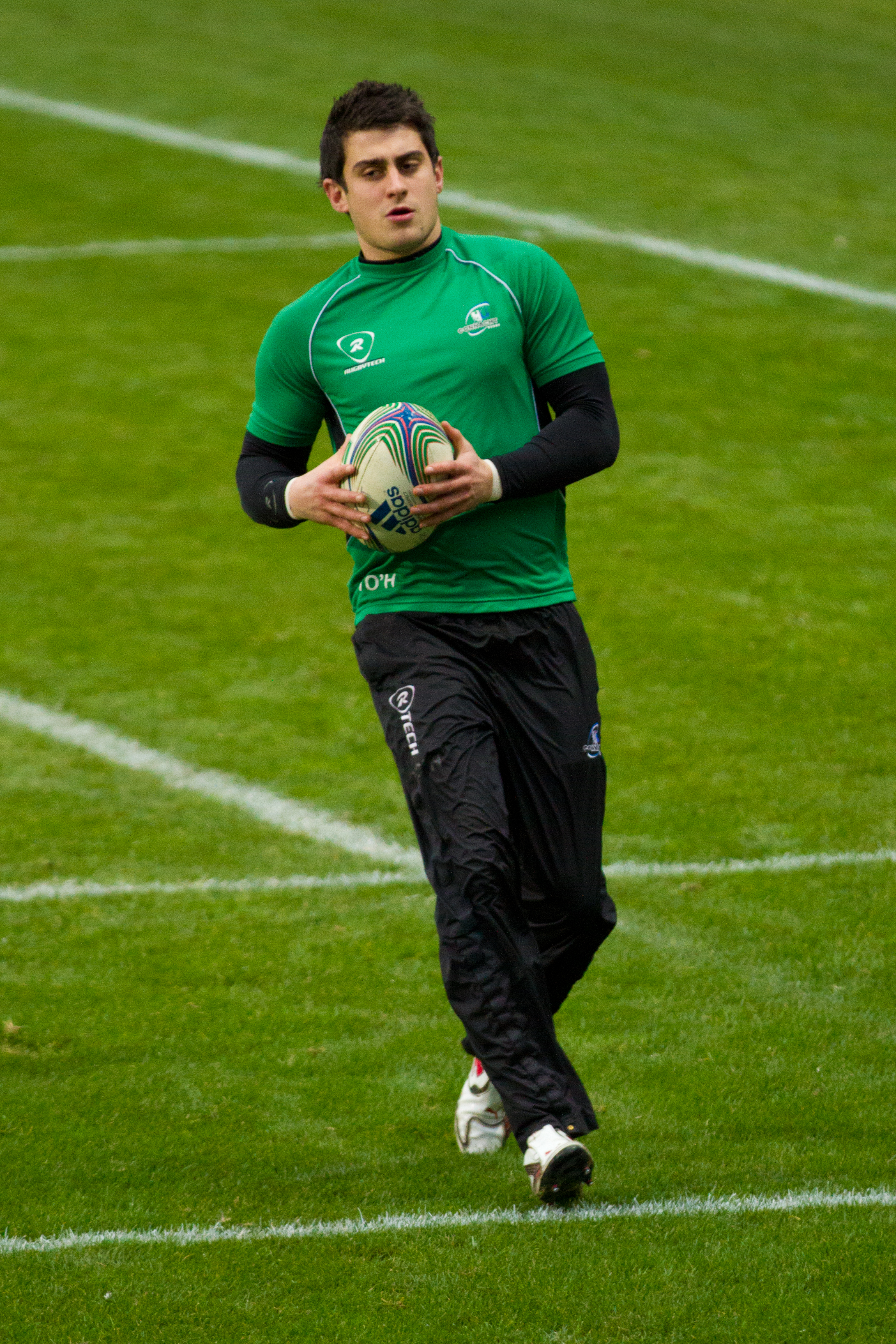 Heineken Cup 2011-2012 — 14 January 2012, Stade Ernest-Wallon. Match between: Stade toulousain — Connacht Rugby